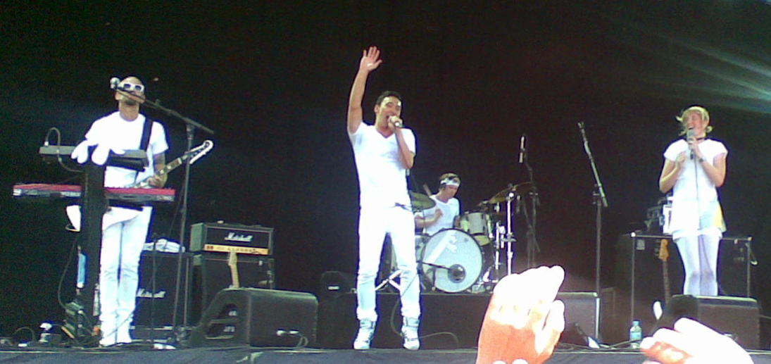 A blurry photo of some people on a stage. Per W: "Regurgitator performing at the Big Day Out in Adelaide, February 2008."